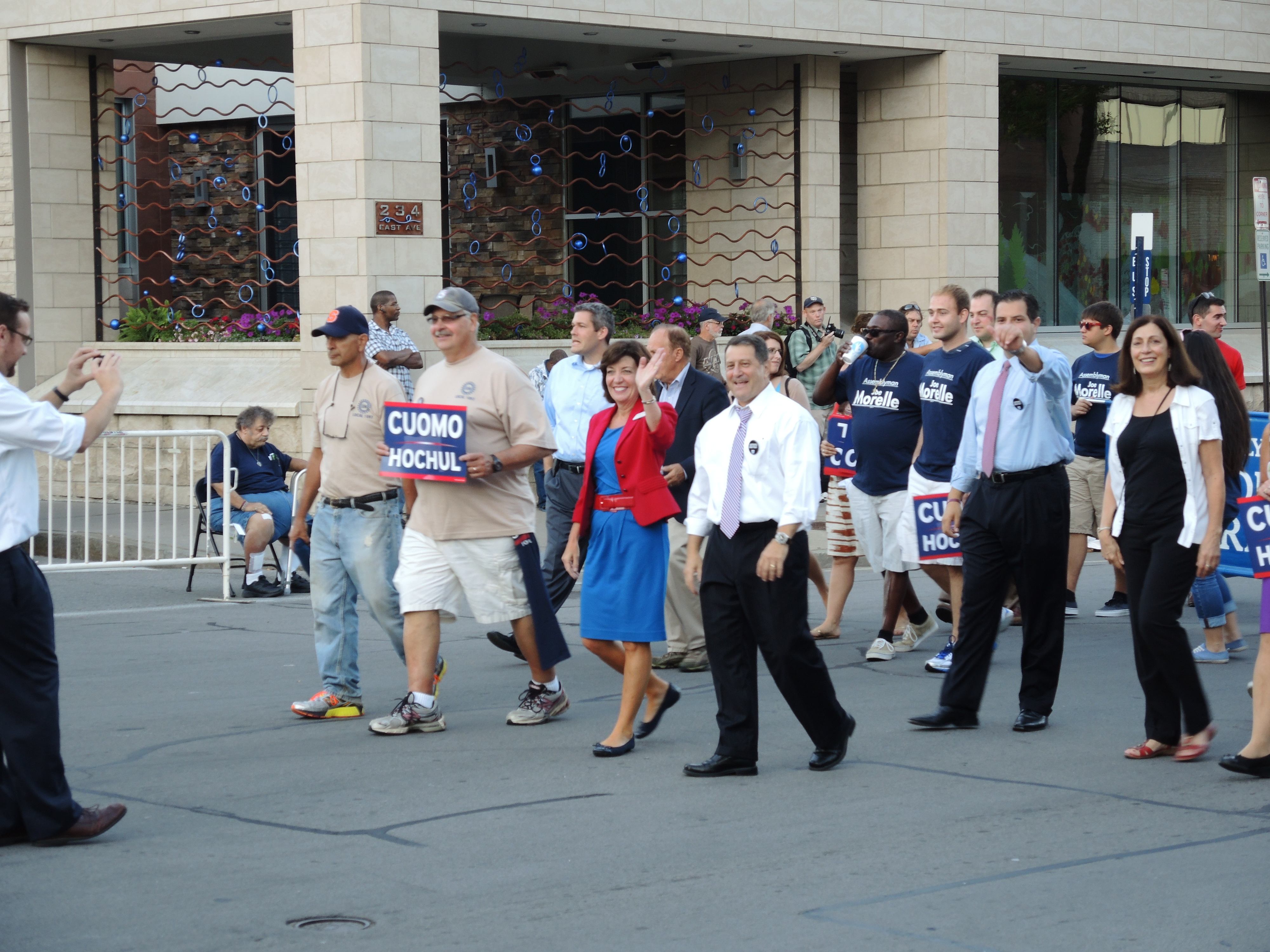 Lieutenant Governor of New York candidate Kathy Hochul and New York State Assembly majority leader Joseph Morelle in the 2014 Labor Day parade in Rochester, New York